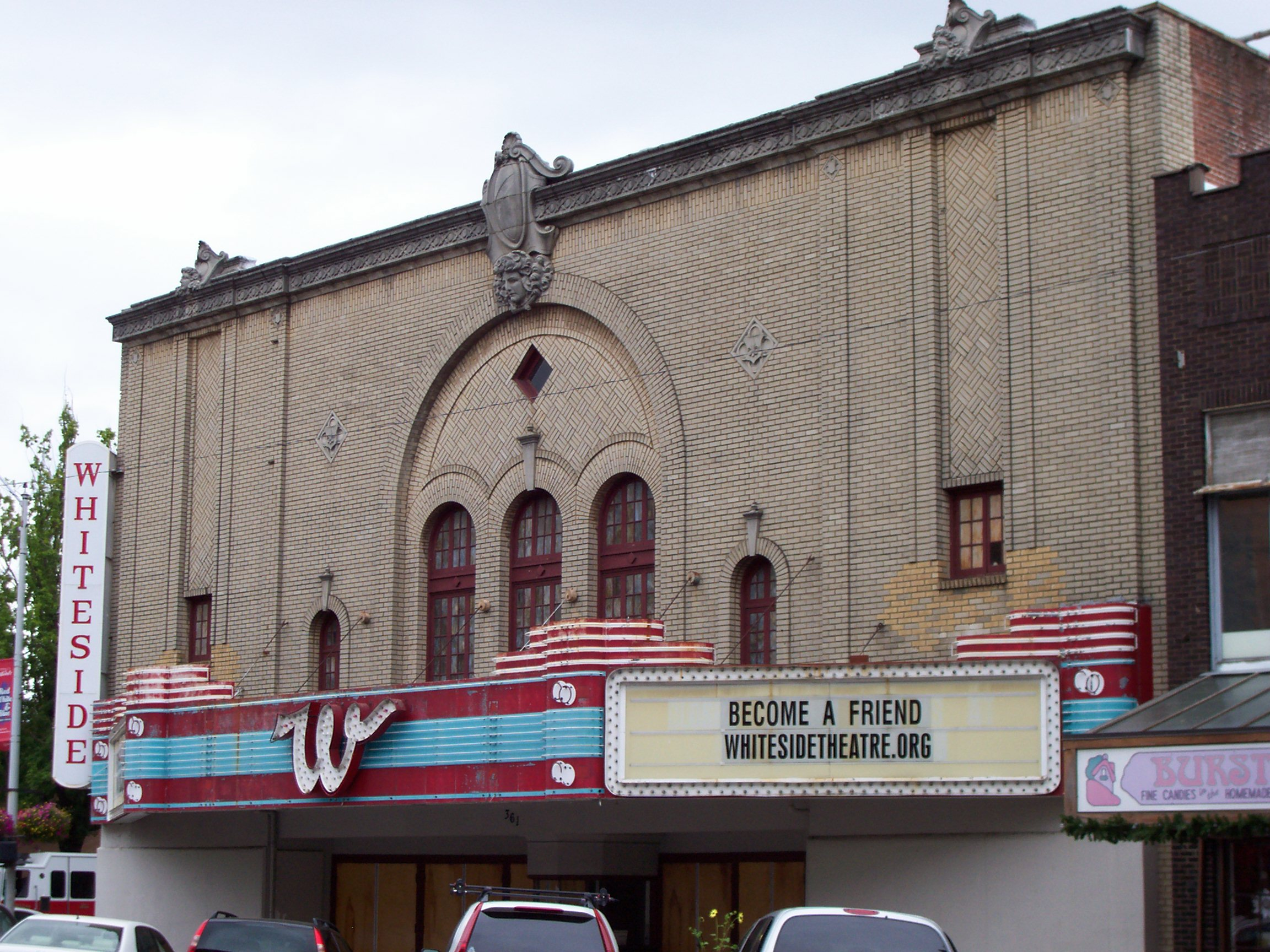 Whiteside Theatre in Corvallis. Listed on the National Register of Historic Places.